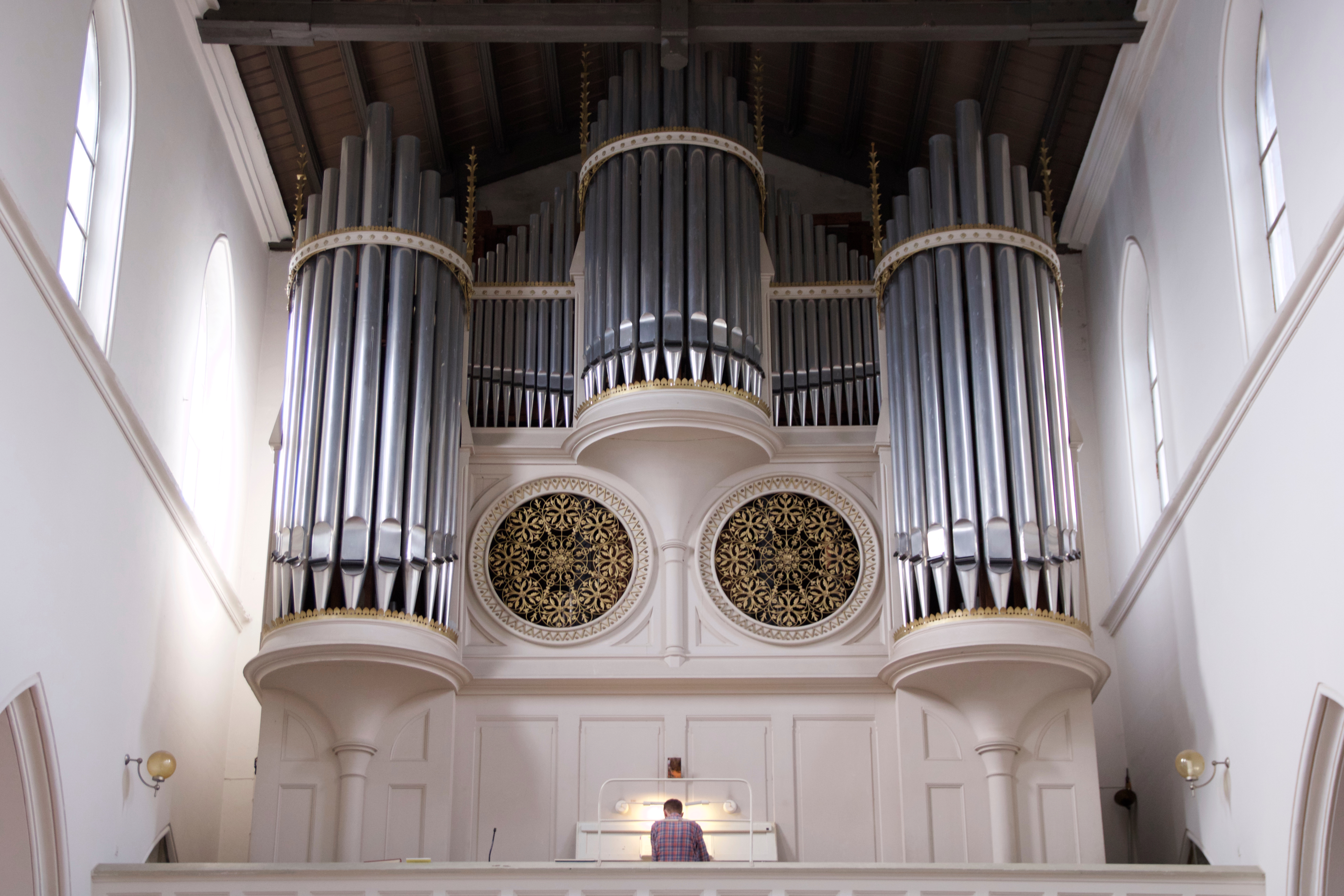 Façade of the pipe organ of St Gertraud's Church in Frankfurt (Oder), built by Wilhelm Sauer in 1878/79